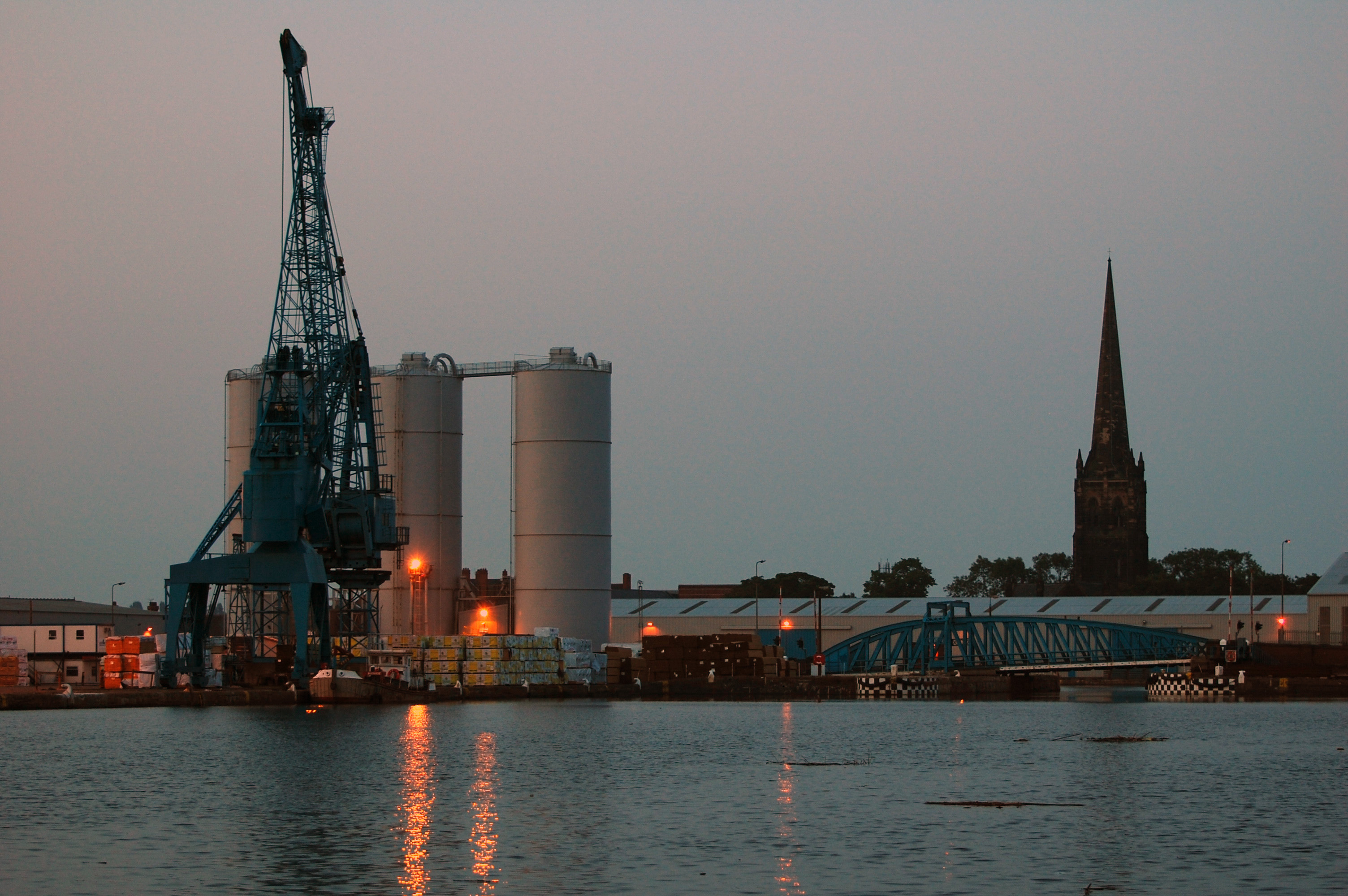 Goole Docks, Goole, East Riding of Yorkshire, England.Taken on the 7th of June 2009.